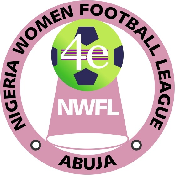 Added Image